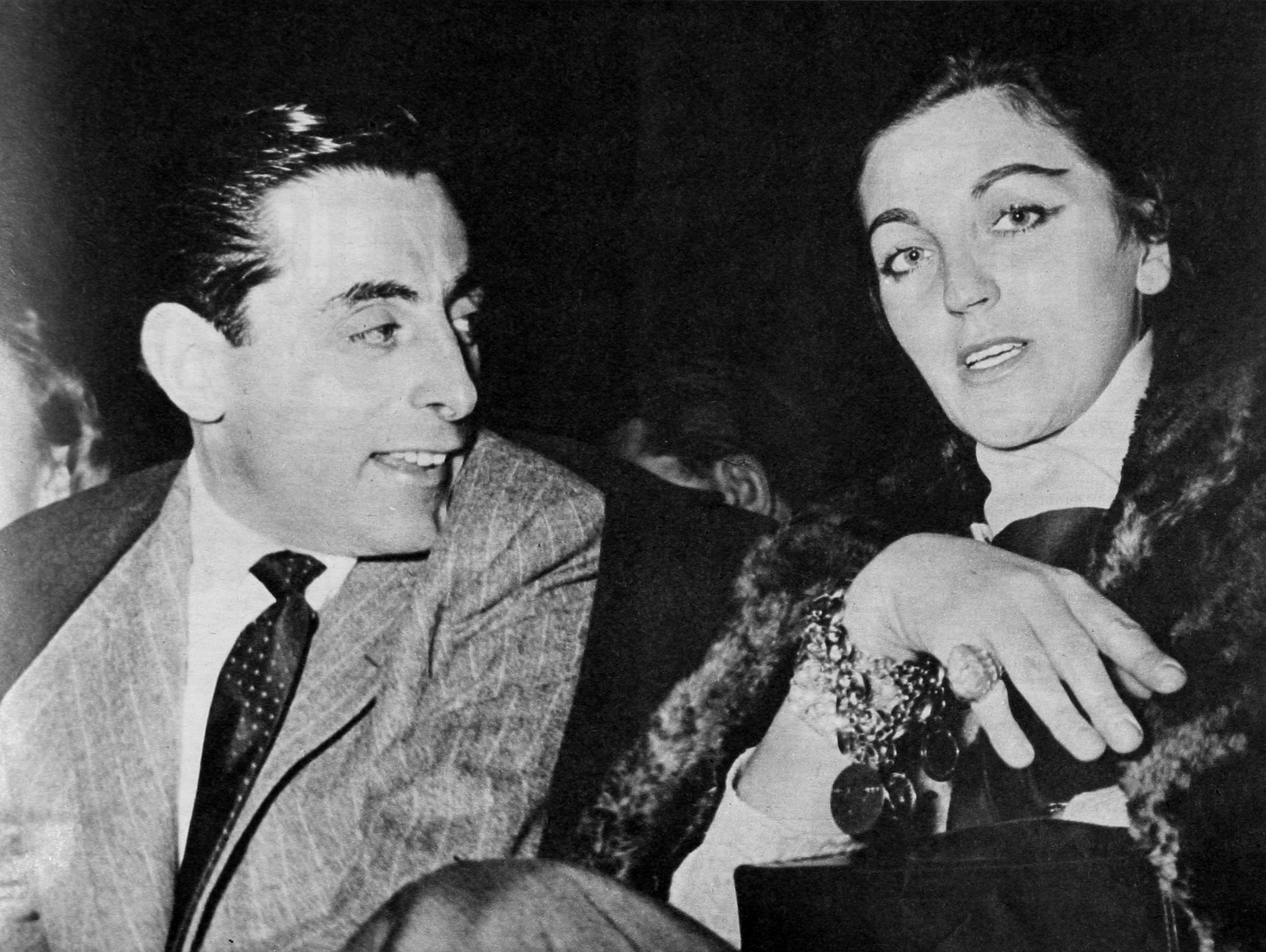 Fausto Coppi and Giulia Occhini at a boxing match between Duilio Loi and his challenger José Hernandez, Palazzo dello Sport, Milano, photo published in L'Europeo.